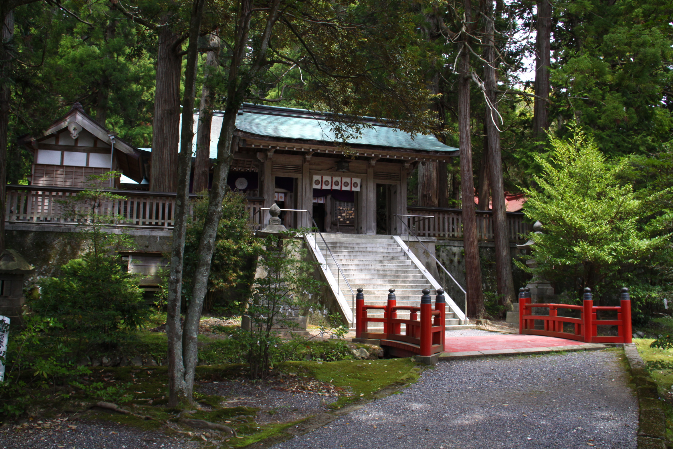 Watatsu jinja Sanmon